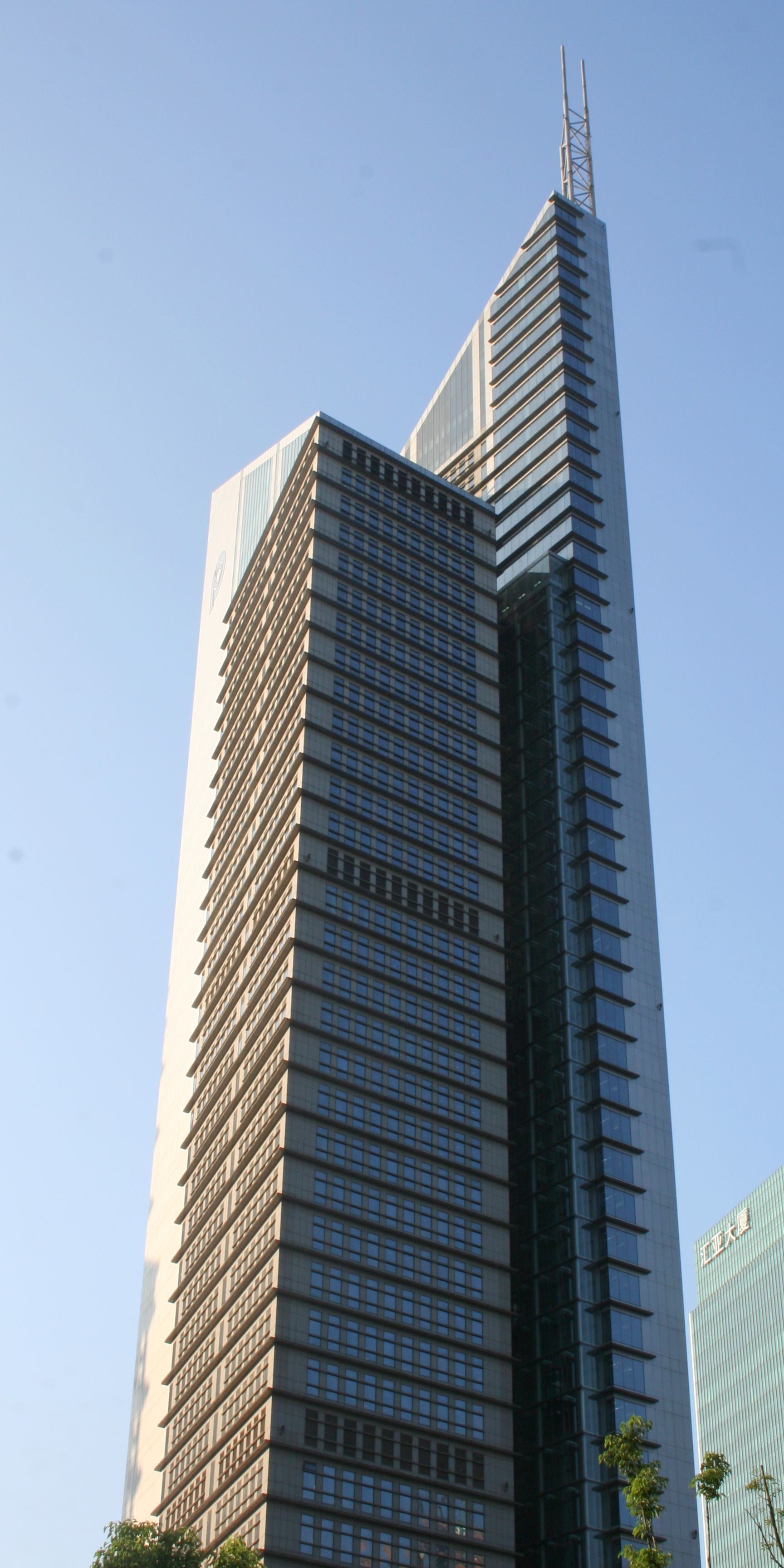 These are the Bocom Financial Towers, located in downtown Shanghai.